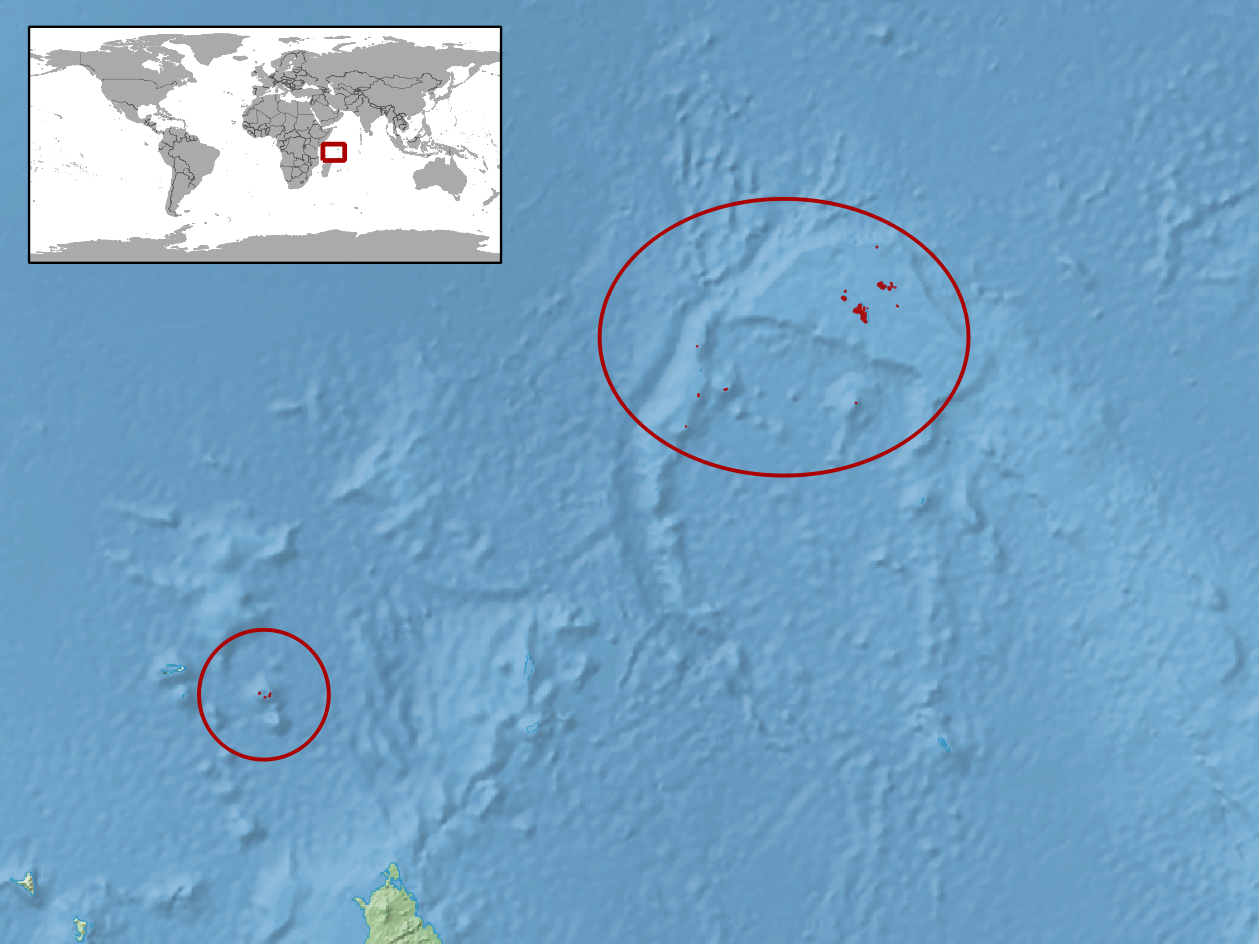 geographic distribution of Phelsuma sundbergi (Native: Seychelles)